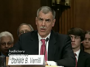 Donald Verrilli at his Senate Judiciary Committee Confirmation Hearing March 30, 2011 - Image taken from webcast